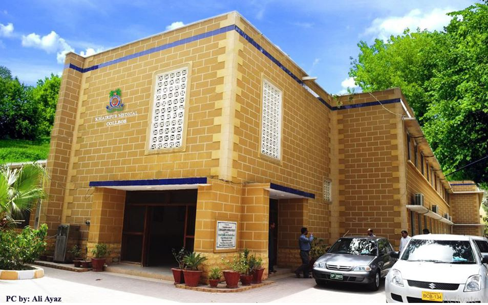 Main Building Block